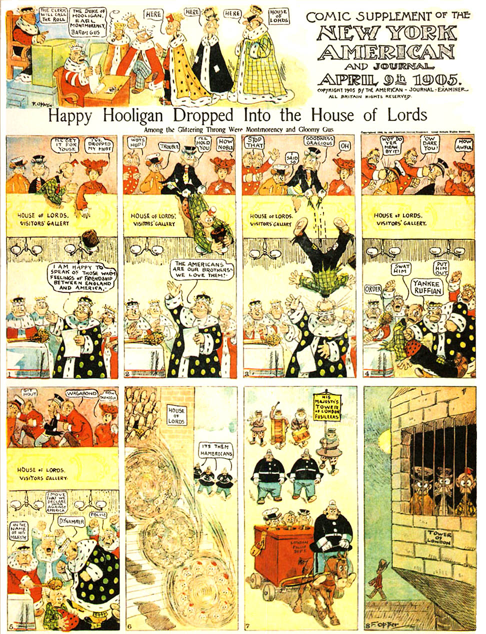 Happy Hooligan comic strip; Copyright 1905 American Journal-Examiner-marked at top right portion of page